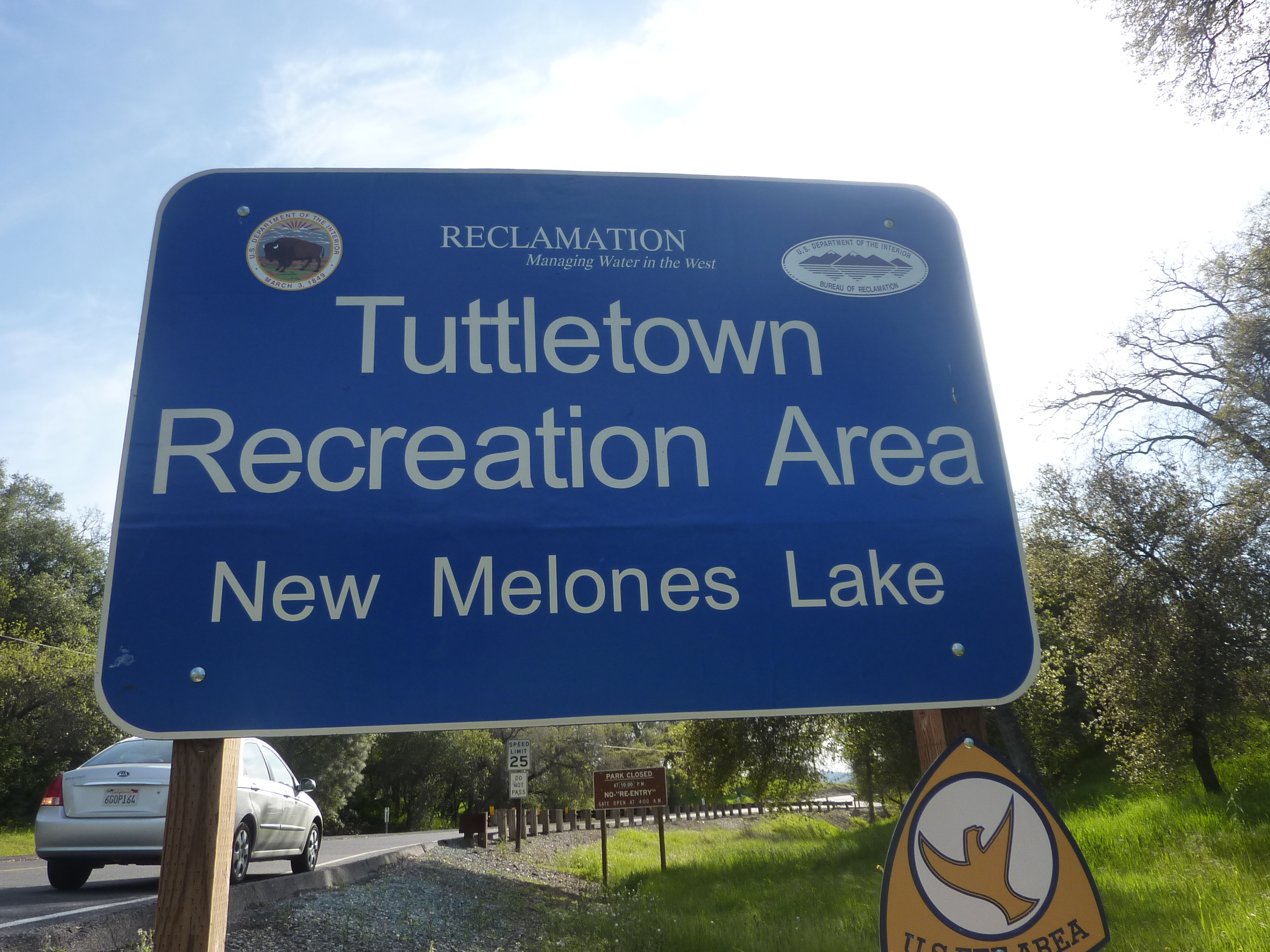 Recreation area of Tuttletown, California